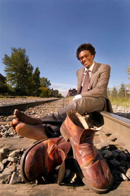 Corneille by Victor Diaz Lamich